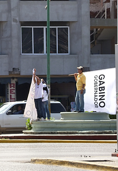 Workers campaigning for the 2010 PAN candidate for Oaxacan Governor, Gabino Cue. Location: Oaxaca, OAX, Mexico. This photo may incorporate a logo or signage, but is free under Mexican Laws governing freedom of panorama - See Commons:COM:FOP#Mexico.